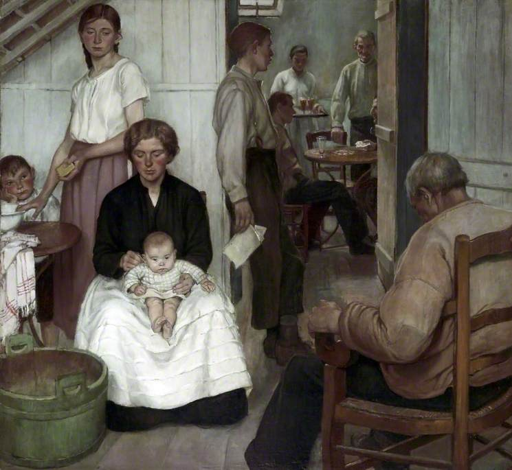 The Back Parlour, Café Ioos, Étaples, France, Nora Lucy Mowbray Cundell